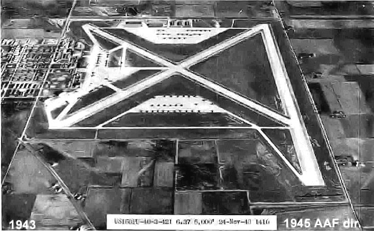 Baer Army Air Base, Indiana, 24 November 1943